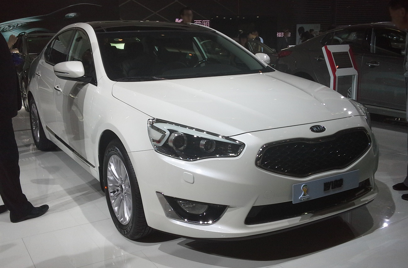 Kia Cadenza VG facelift photographed at the Auto China 2014, Beijing, China.